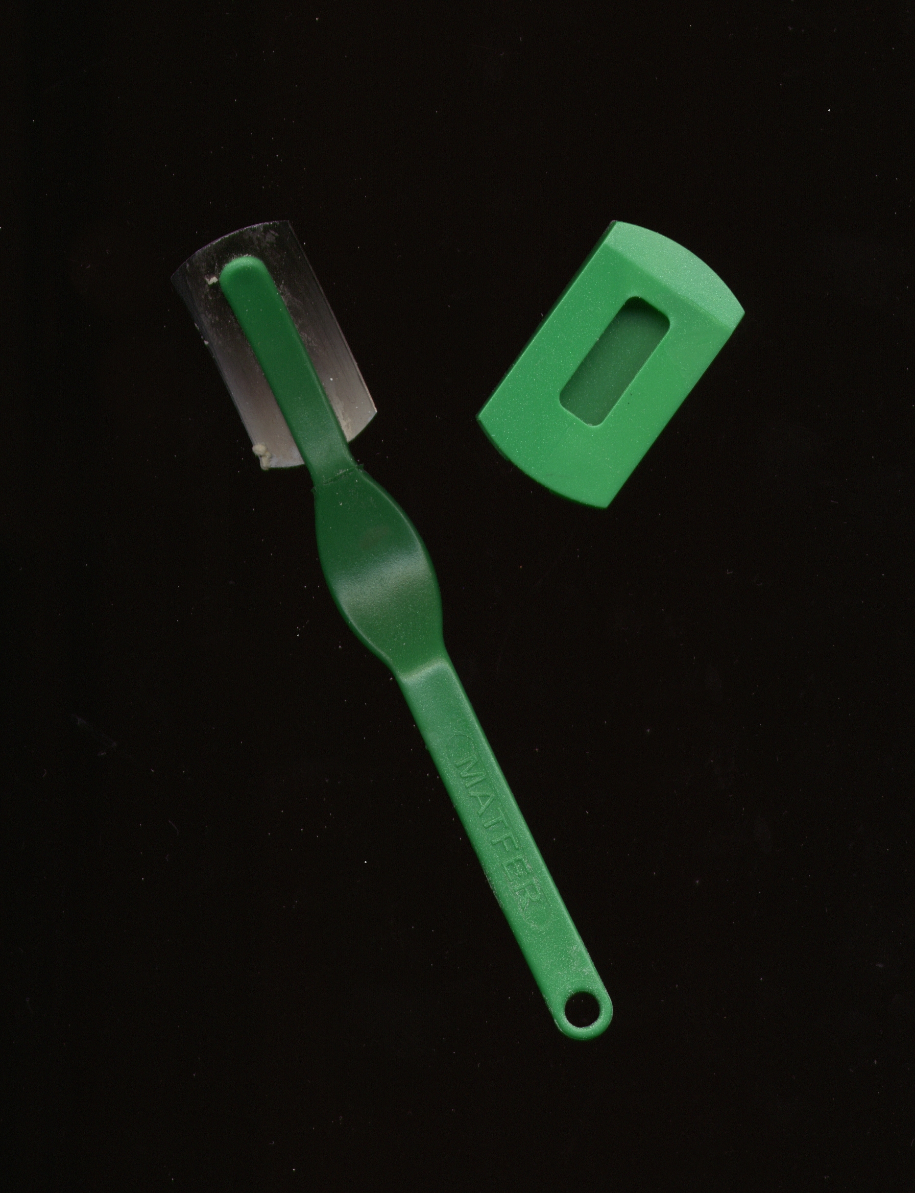 My lamé, with its protective top beside it